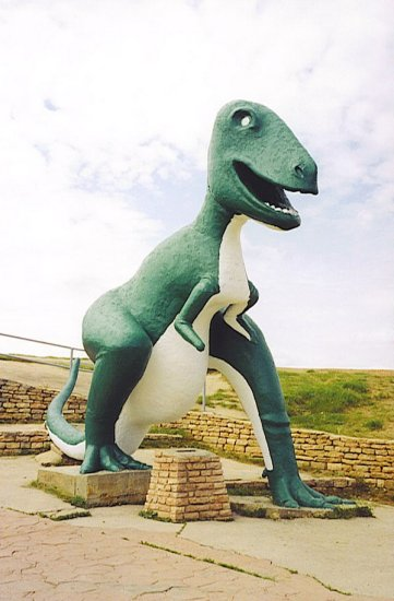 Tyrannosaurus Rex - May 2003